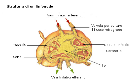 Italian version if File:Illu lymph node structure.png. This vector image was created with Inkscape.